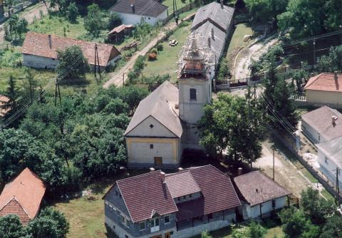 Tardona, Hungary, aerialphotography